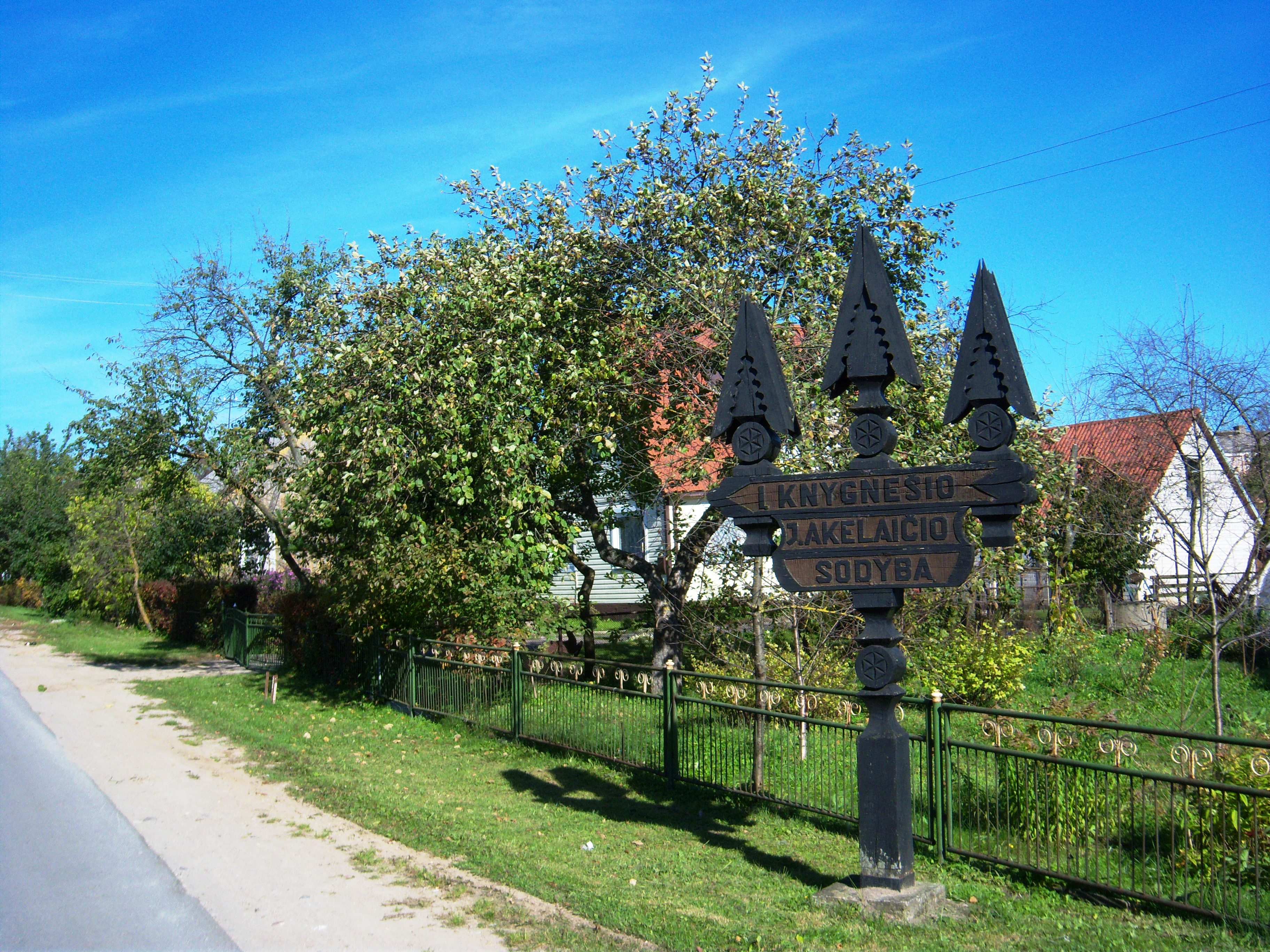 Liudvinavas, Marijampolė Municipality, Lithuania